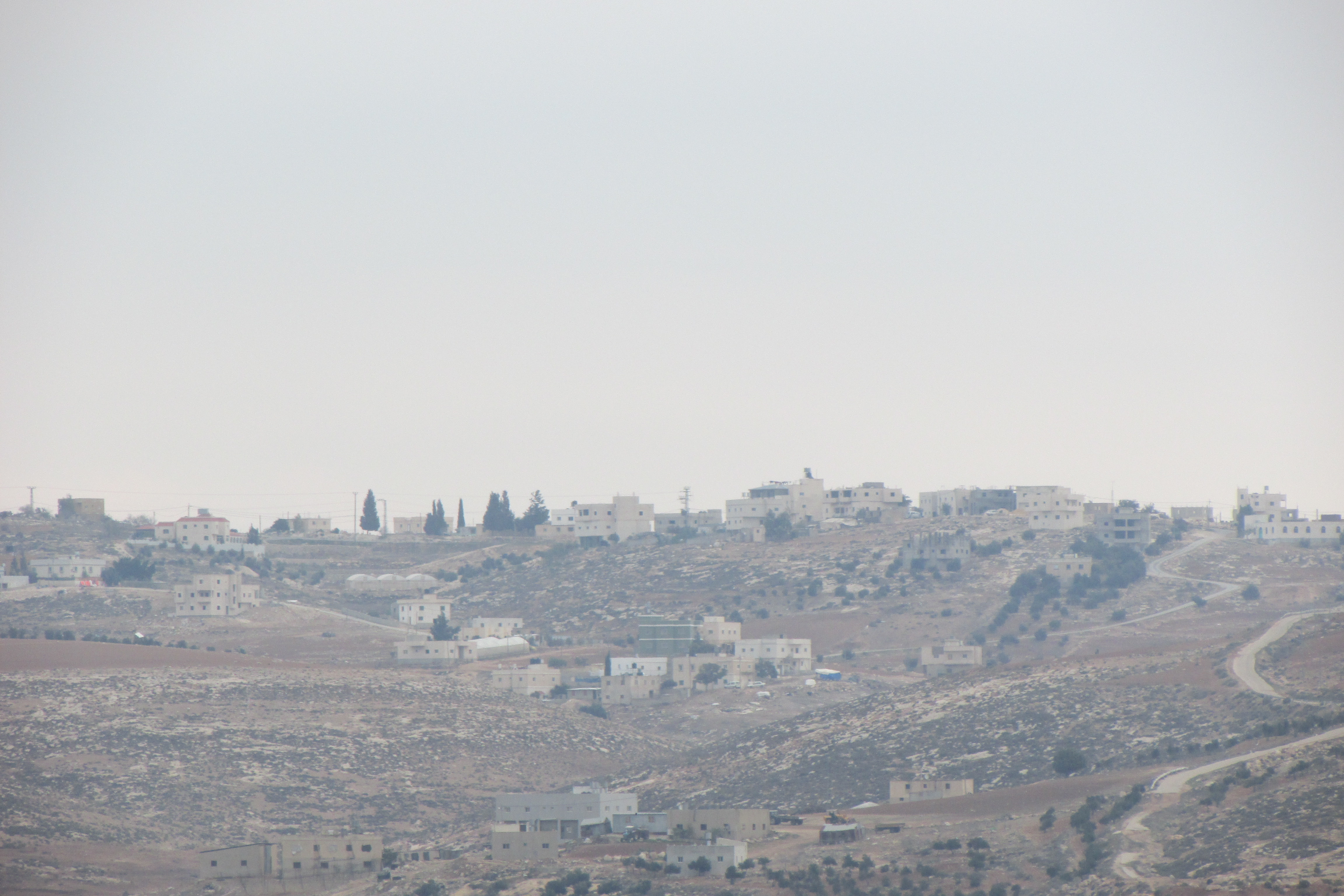 Al-Ramadin from Joe Alon center in the west